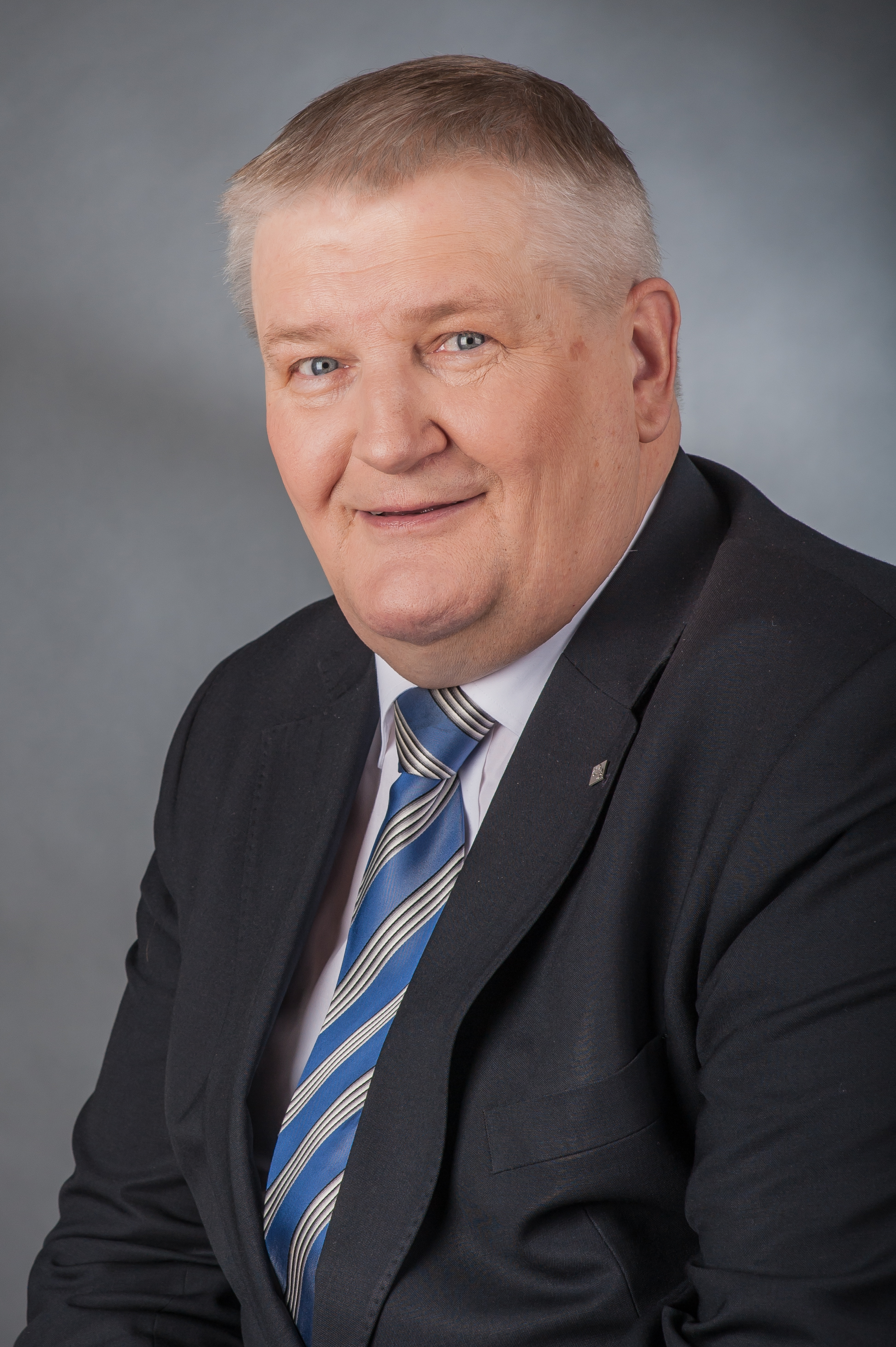 Wikipedia im Landtag – Niedersachsen 17. bis 18. April 2013 in Hannover Personality rights warningAlthough this work is freely licensed or in the public domain, the person(s) shown may have rights that legally restrict certain re-uses unless those depicted consent to such uses. In these cases, a model release or other evidence of consent could protect you from infringement claims.